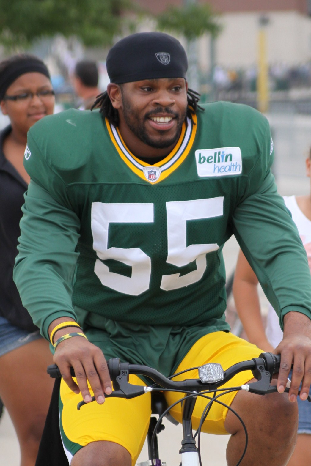 Green Bay Packers linebacker Desmond Bishop rides a fan's bicycle during preseason training camp, Green Bay, Wisconsin, August 5, 2011